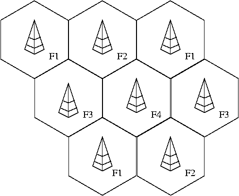 This image shows an example of frequency reuse in cellular networks (in this case 4 frequencies are used). The image is an idealised representation with perfectly hexagonal cells. Eight separate cells are shown packed one next to the other. The first cell on the top left uses frequency 1. The cells which are next to it then use frequency 2 and 3. Beyond those cells, another cell again uses frequency 1. This pattern with the same frequency never being reused by direct neighbours repeats across the diagram. The frequency reuse pattern shown is typical example for a digital cellular system (i.e. GSM). For earlier analog systems a higher reuse pattern (7 or greater) is more usual. The original version of the image is also available in xfig format. The image is created by me and this copy is donated to the Wikipedia project under the following license. Mozzerati 08:29, 2004 Jun 19 (UTC)